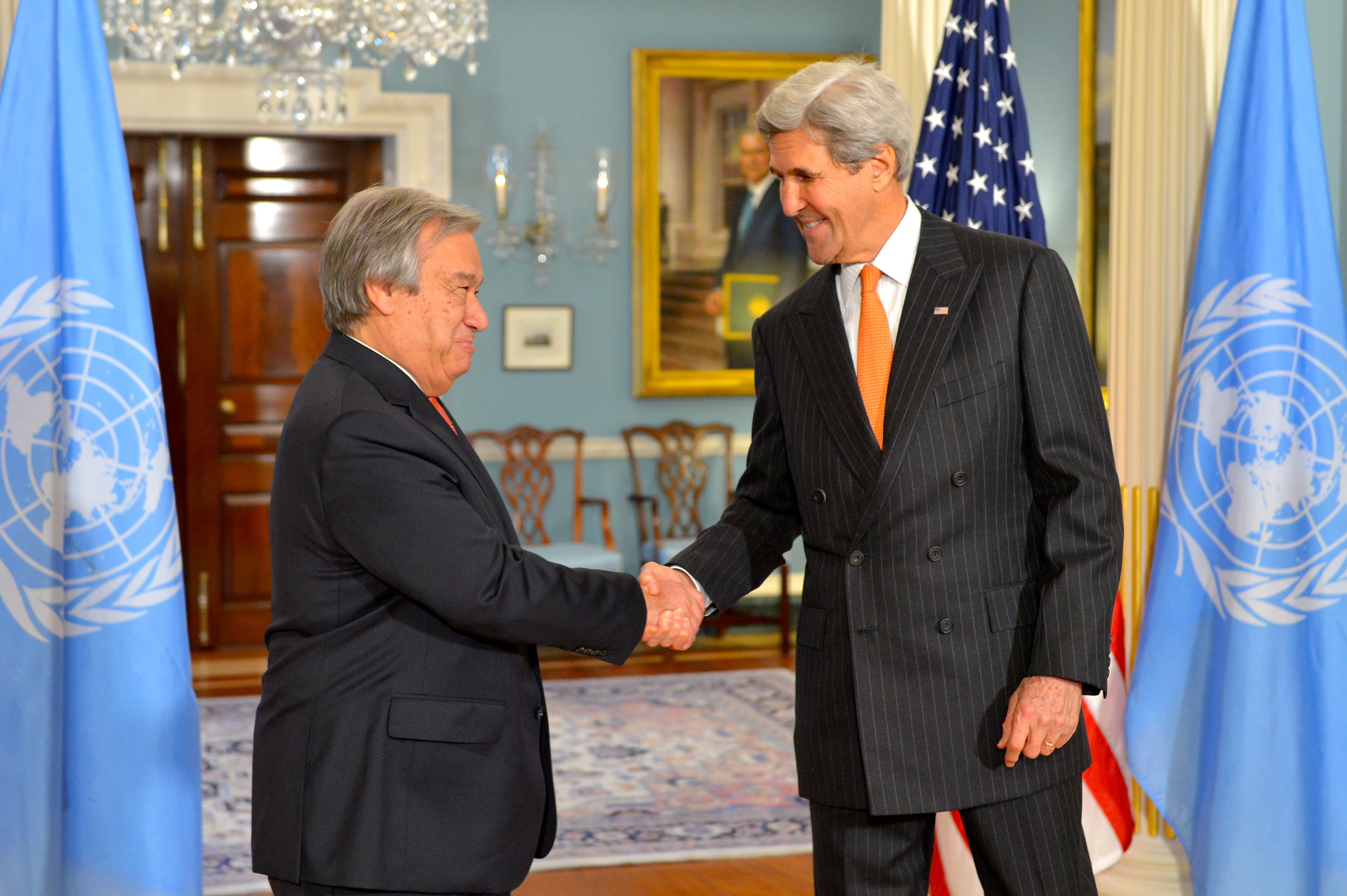 U.S. Secretary of State John Kerry shakes hands with UN Secretary-General-designate Antonio Guterres after addressing reporters at the U.S. Department of State in Washington, D.C., on November 4, 2016. [State Department photo/ Public Domain]